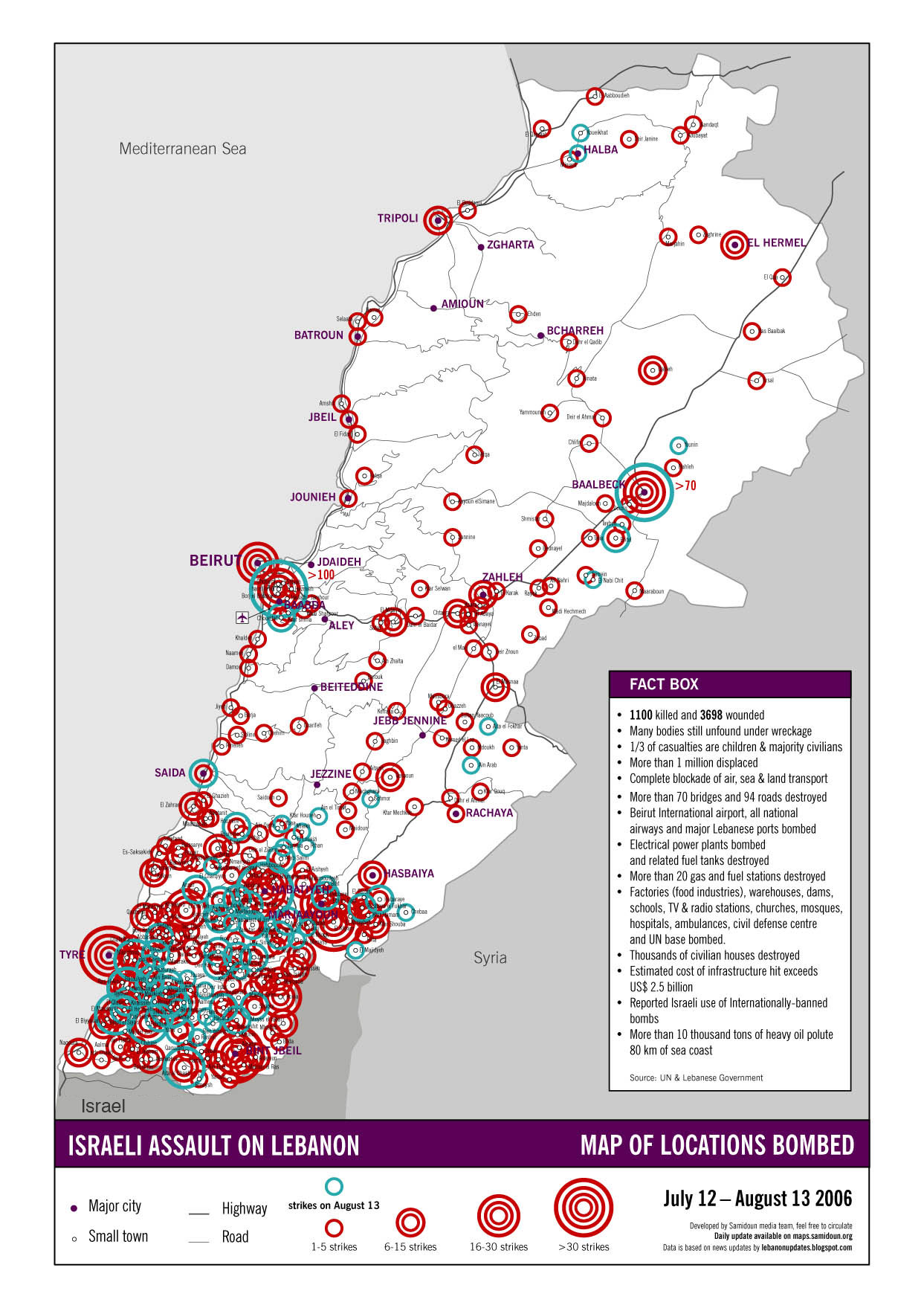 2006 Lebanon War, where the bombing on August 13